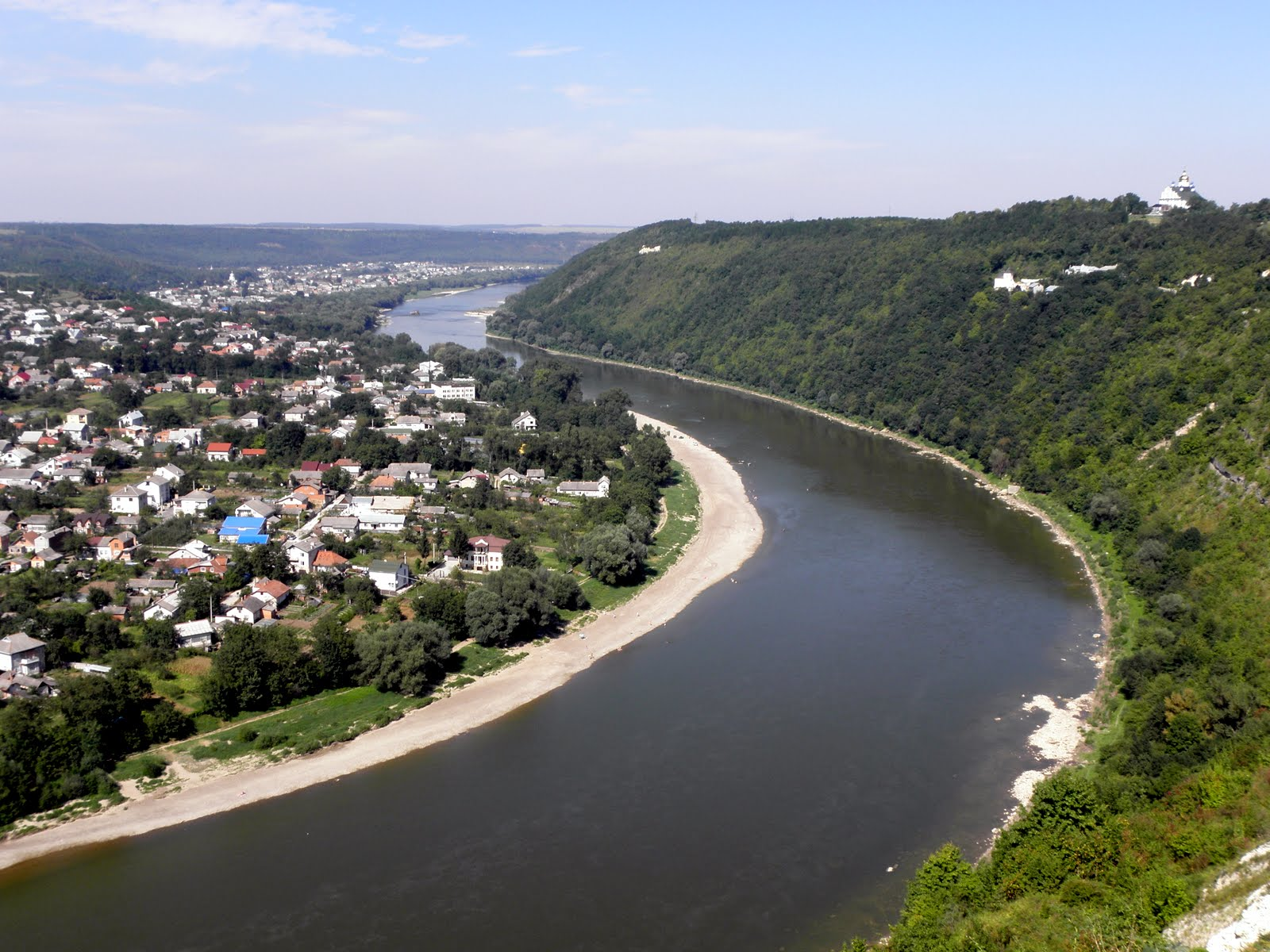 Zalischyky